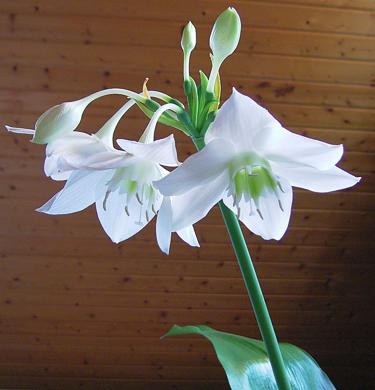 Eucharis amazonica, flowering